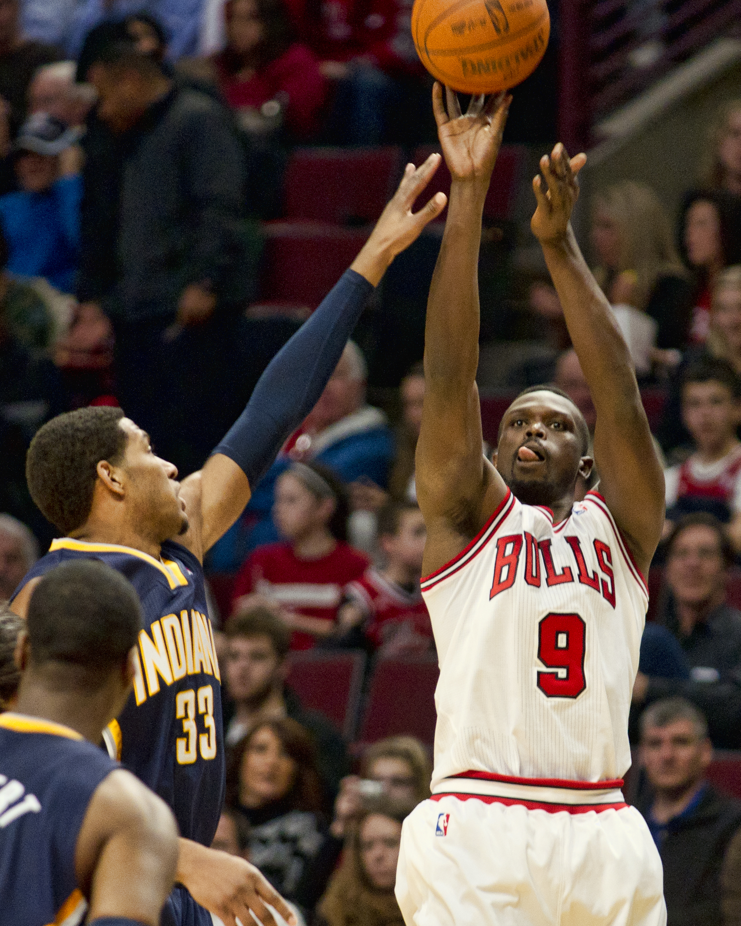 Luol Deng of the Chicago Bulls shoots over Danny Granger of the Indiana Pacers